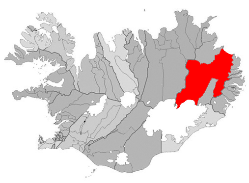 Based on Municipalities of Iceland.png.